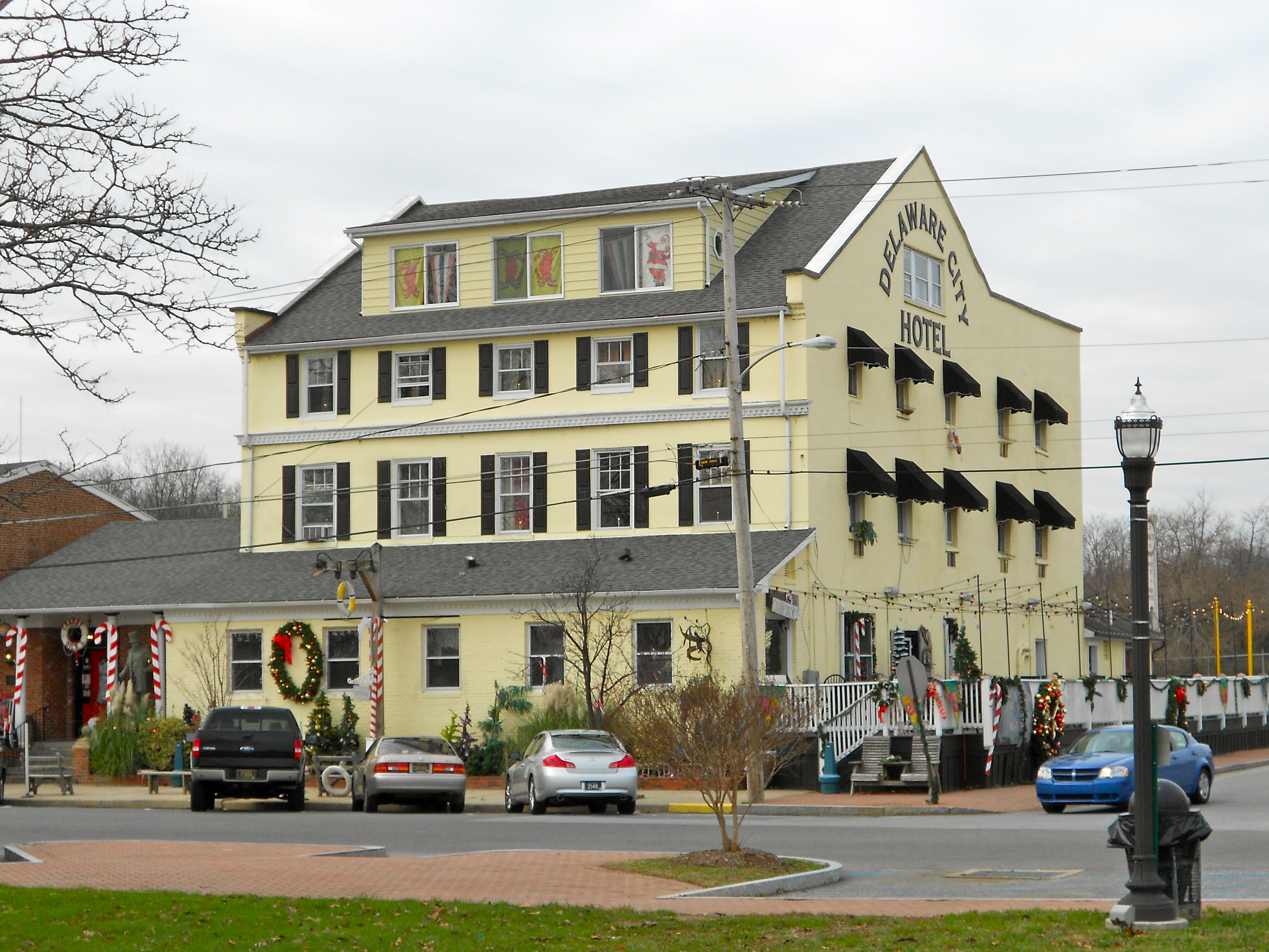 Delaware City Hotel, in the Delaware City Historic District (on the NRHP since December 15, 1983) The historic district is roughly bounded by the Delaware River, Dragon Creek, Delaware Route 9, and the Delaware and Chesapeake Canals in Delaware City, New Castle County, Delaware.